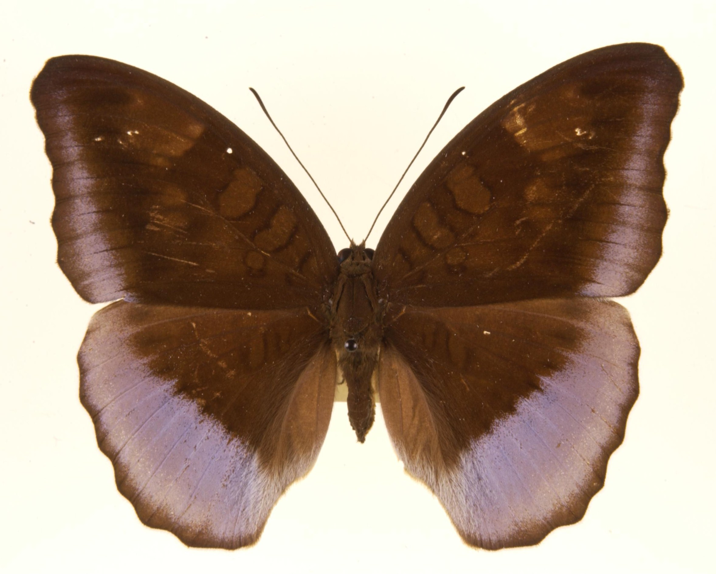 A neophron